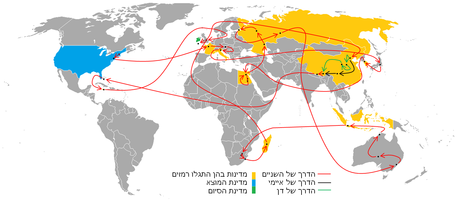 Where Dan and Amy was in The 39 clues. (only books 1 to 10)